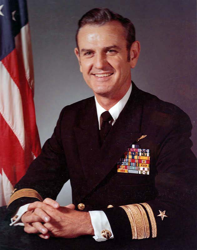 Rear Admiral James B. Linder (Last Commander of United States Taiwan Defense Command) USN